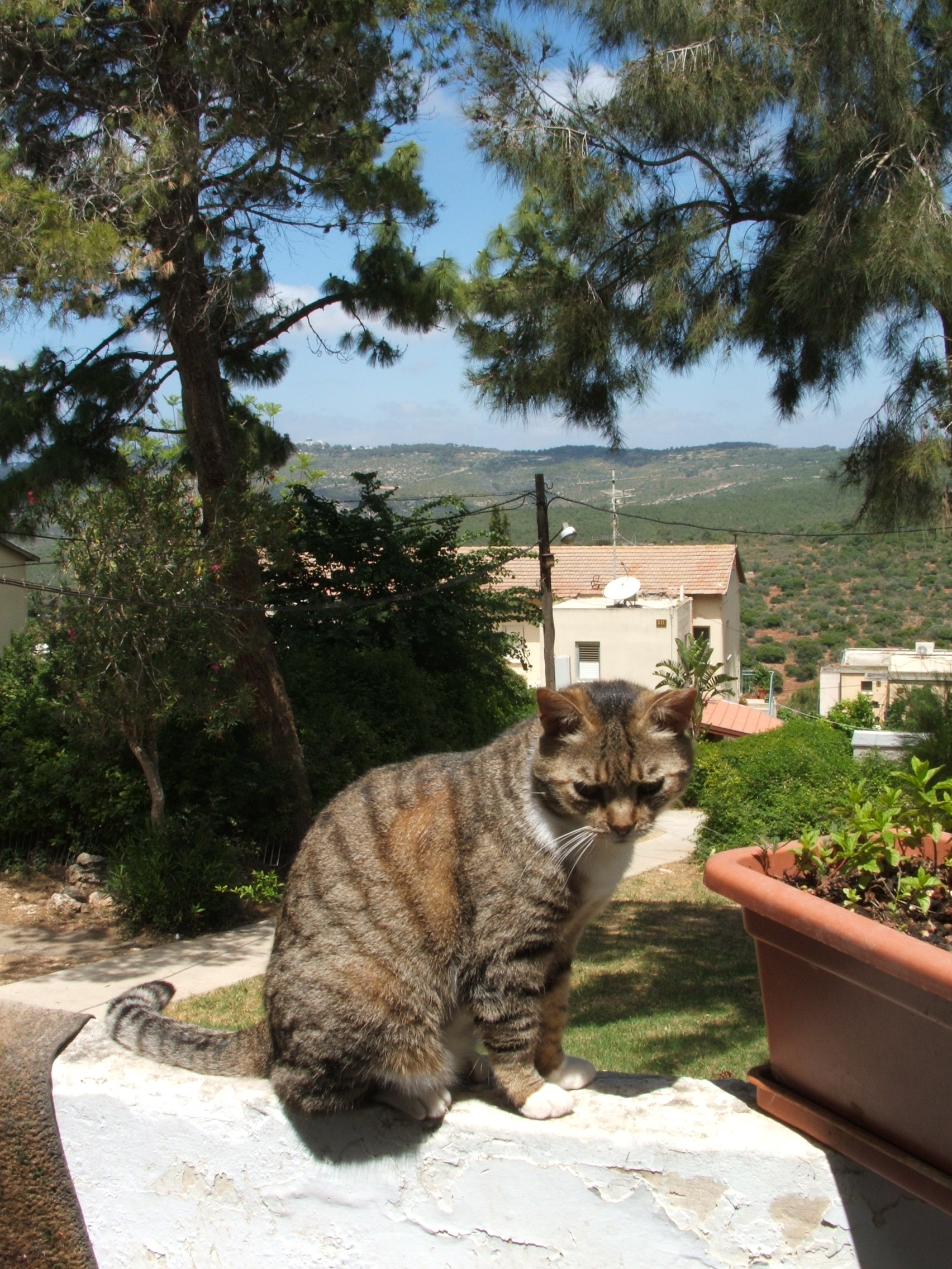 Beit Oren is a kibbutz in northern Israel. It falls under the jurisdiction of Hof HaCarmel Regional Council.